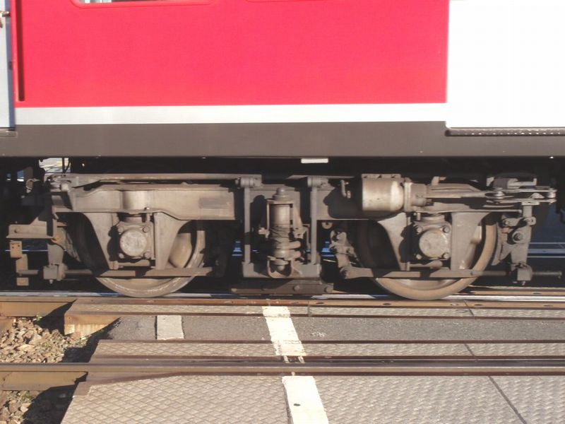 Bogie Truck TS330A of Hakone Tozan Railway type 2000.